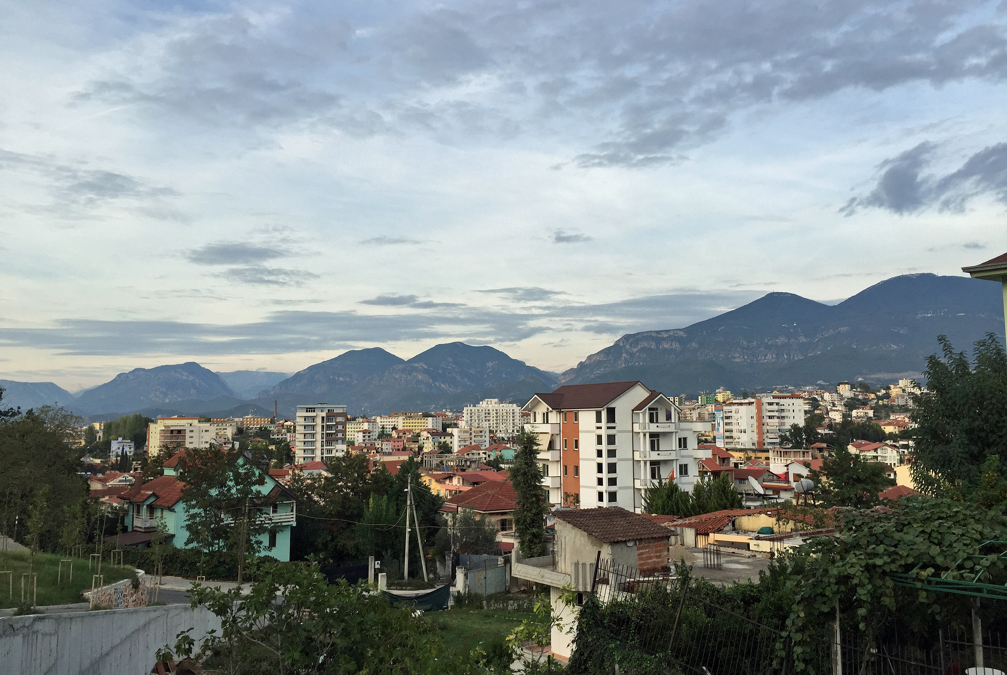 Skanderbeg Mountains seen from Tirana's Southern outskirts